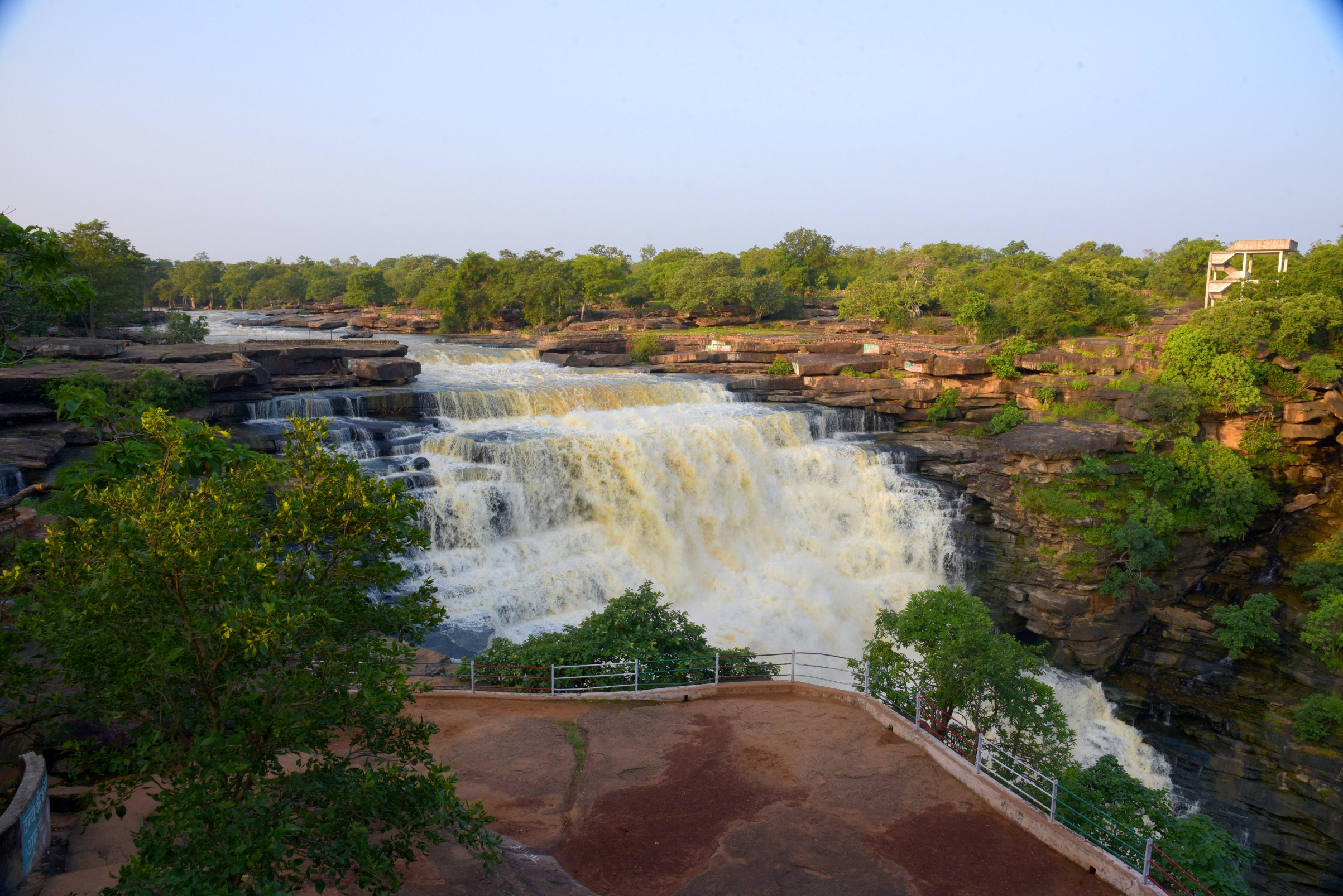 Devdari Water fall at Chandrarabha Wildlife Sanctuary